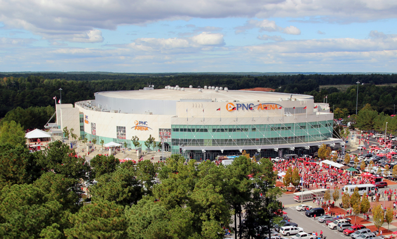 PNC Arena at Raleigh, North Carolina, in September, 2013. Formerly named "RBC Center."